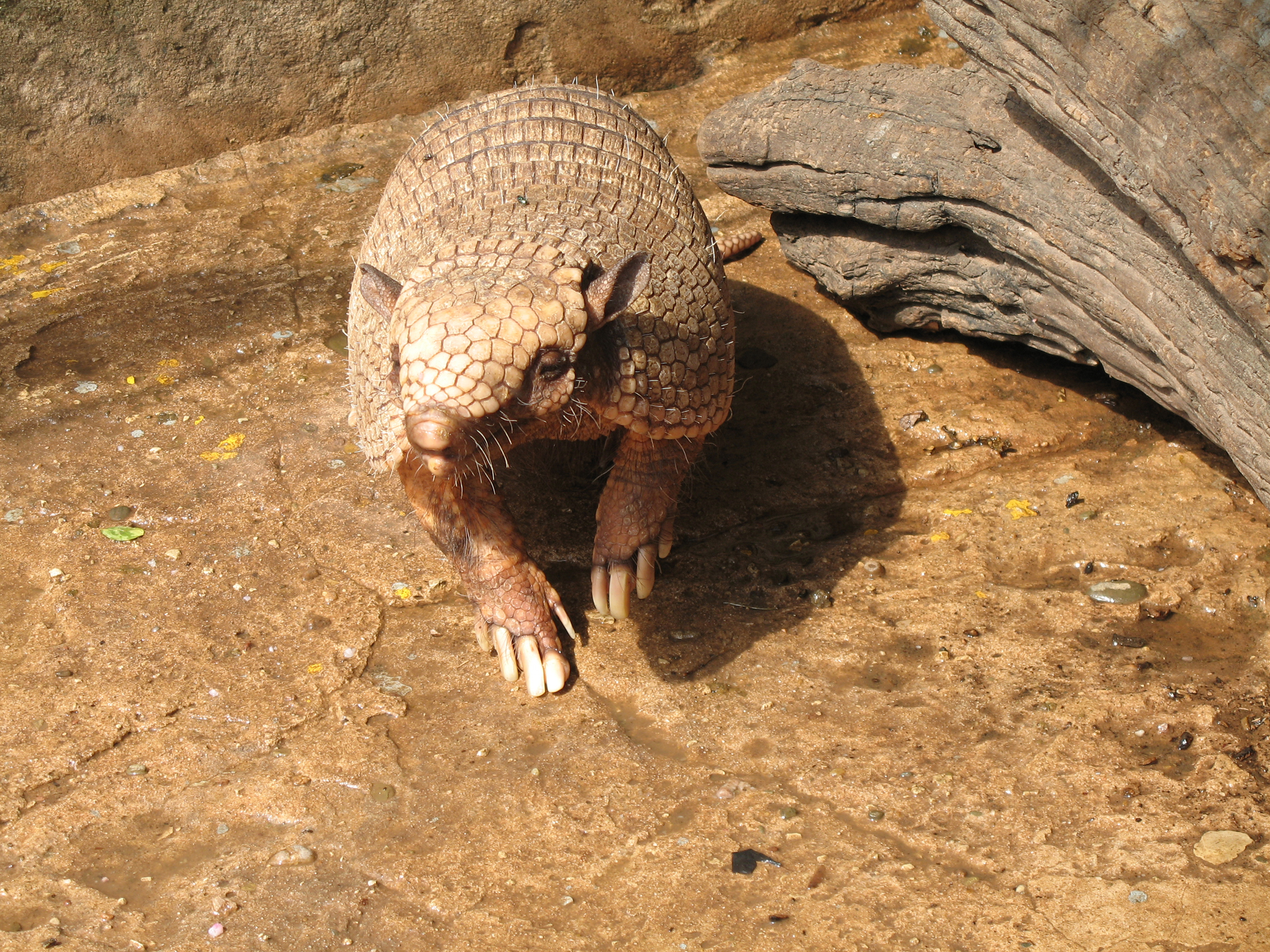 Description: Six-banded armadillo (Euphractus sexcinctus) Author: Whaldener Endo Year: 2006